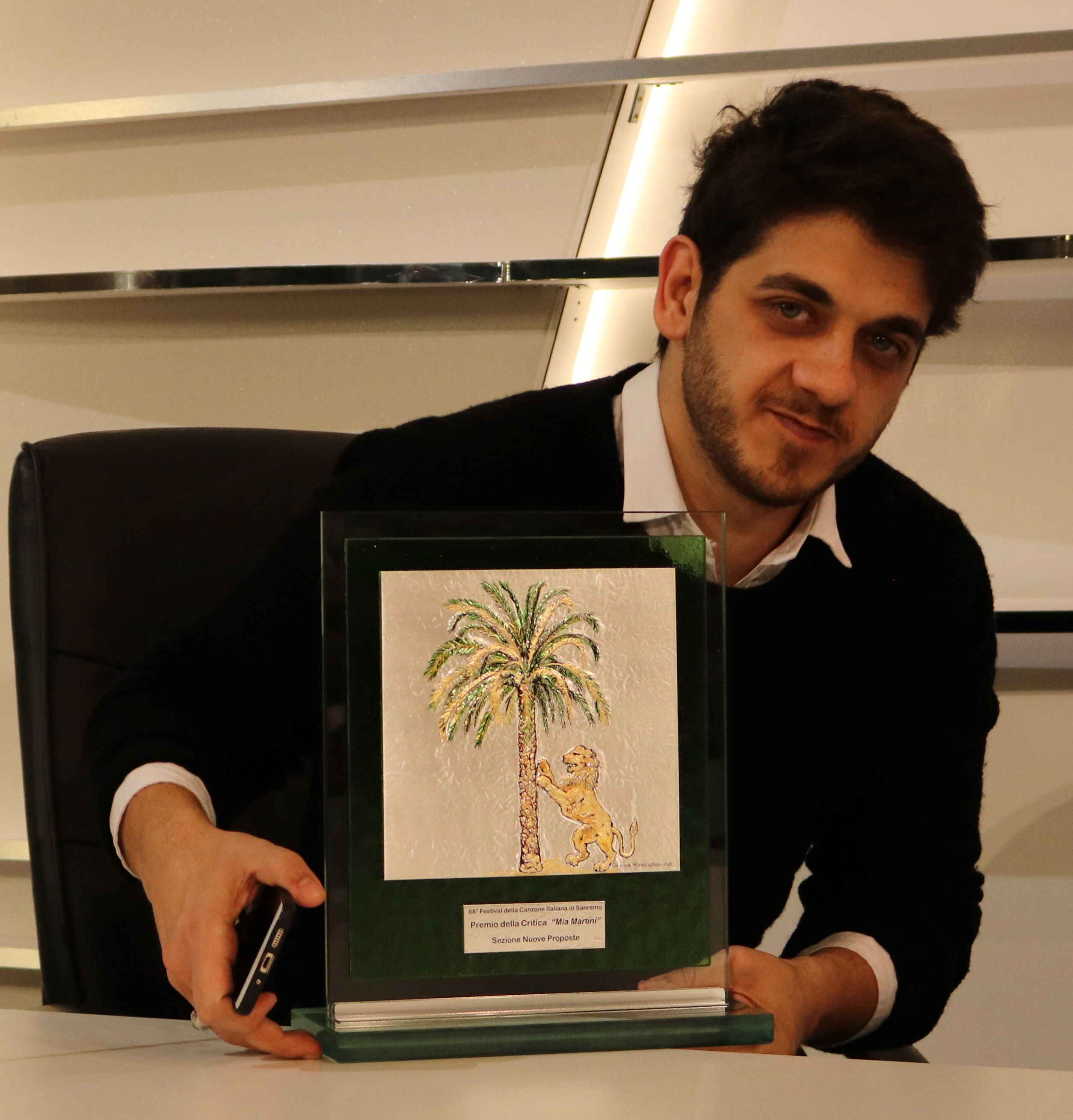 Mirkoeilcane